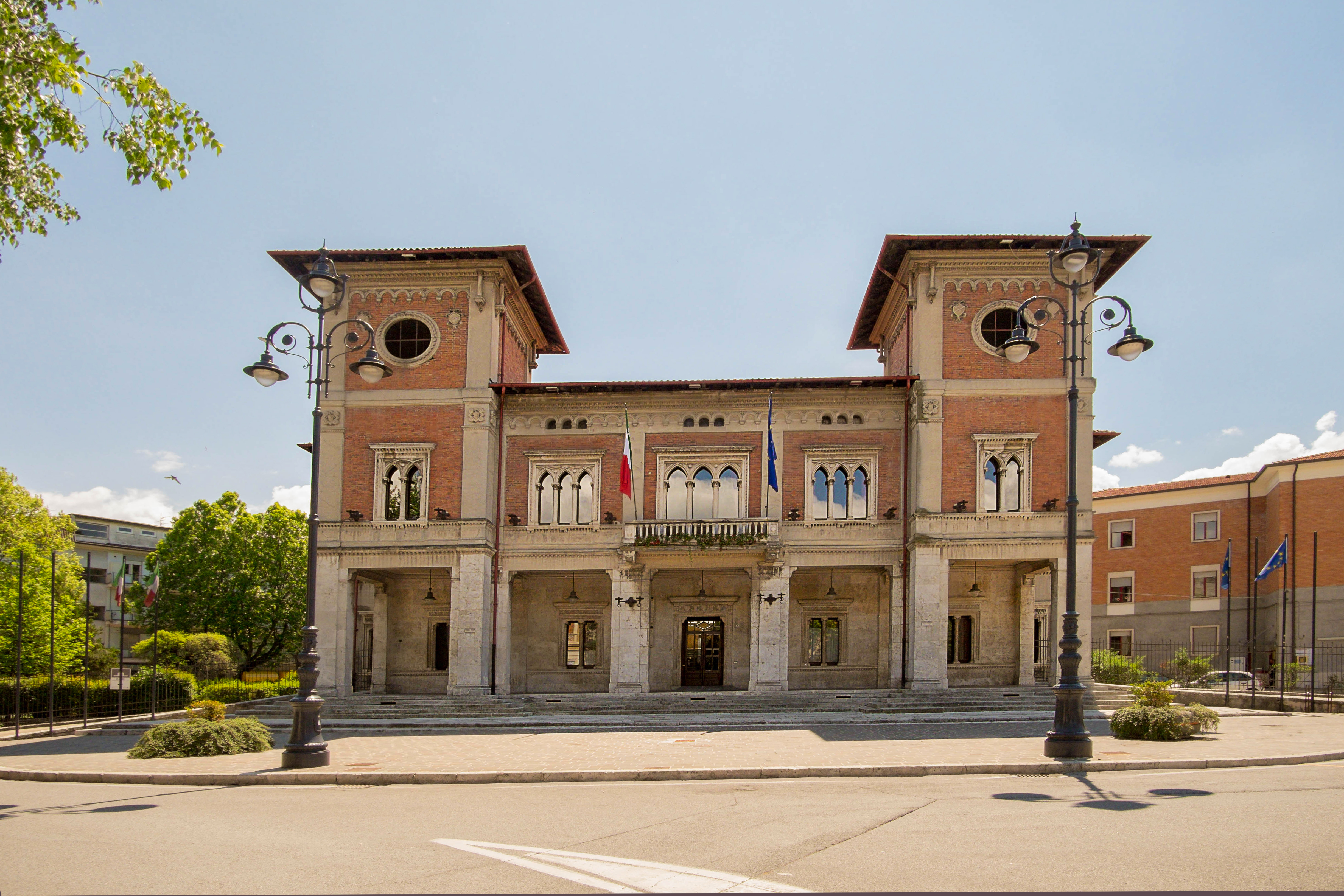 Town hall, Avezzano, Abruzzo, Italy